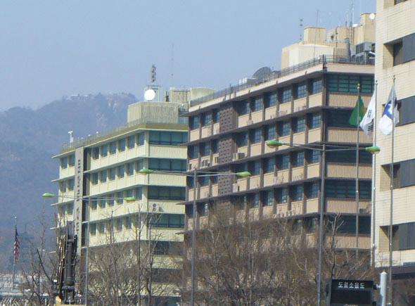 The U.S. Embassy is in the foreground. Beyond it is the former USAID building.